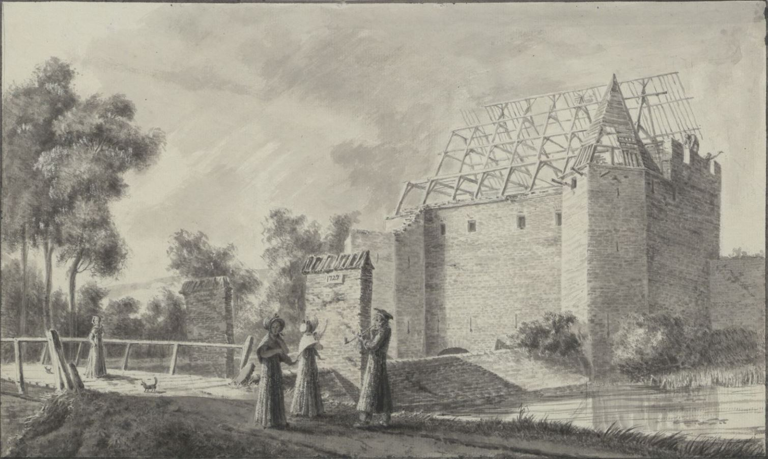 Drawing from the second part of the album 'Vues de Bruxelles et environs' by Paul Vitzthumb, held in the Royal Library of Belgium.